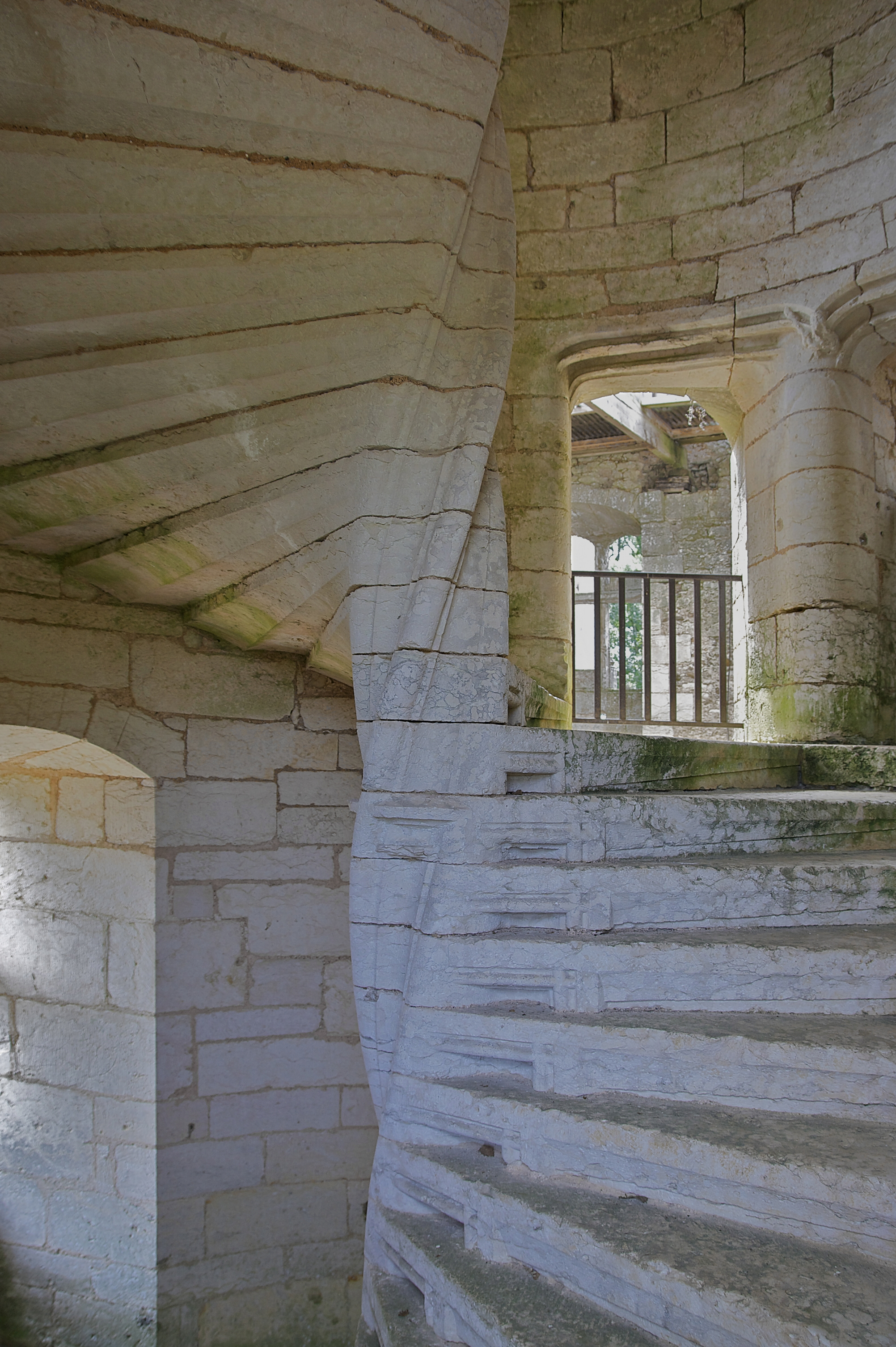 stone spiral staircase, ruins of the Château de l'Herm, Rouffignac-Saint-Cernin-de-Reilhac, Dordogne, France.